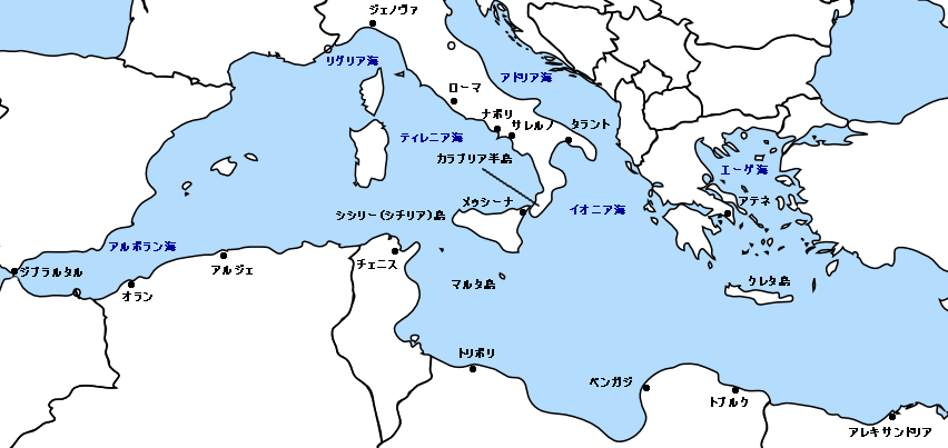 Mediterranean of Map. / modify(change) added Japanese Image:World_Map_Blank.svg remade to look as Image:A large blank world map with oceans marked in blue.PNG